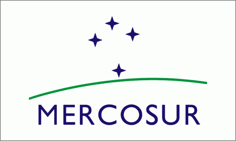 Flag of Mercosur